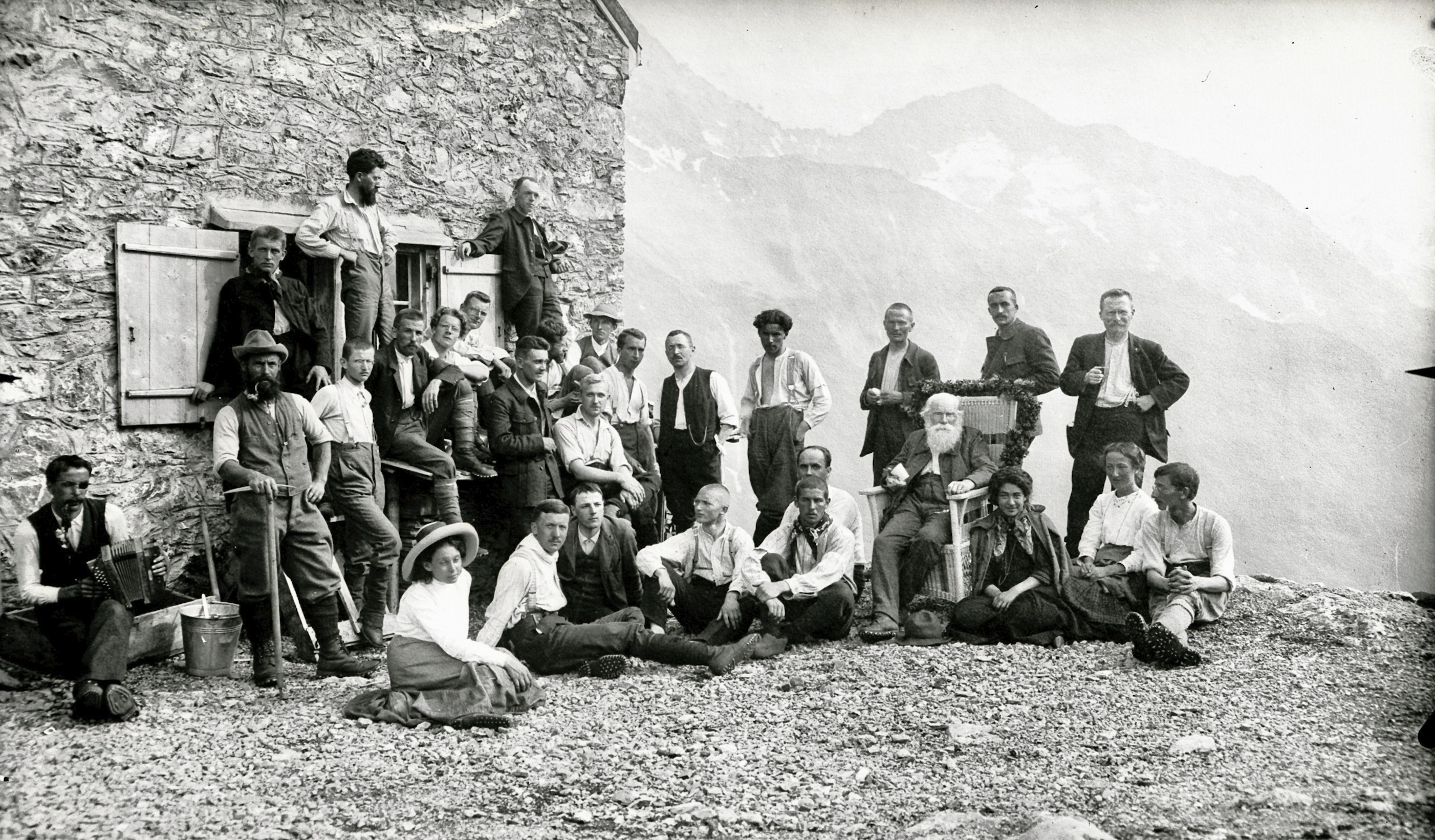 Albert Heim (1849–1937, in chair), Arnold Fanck (1889–1974, back row from the left: 4th standing person with open white shirt)